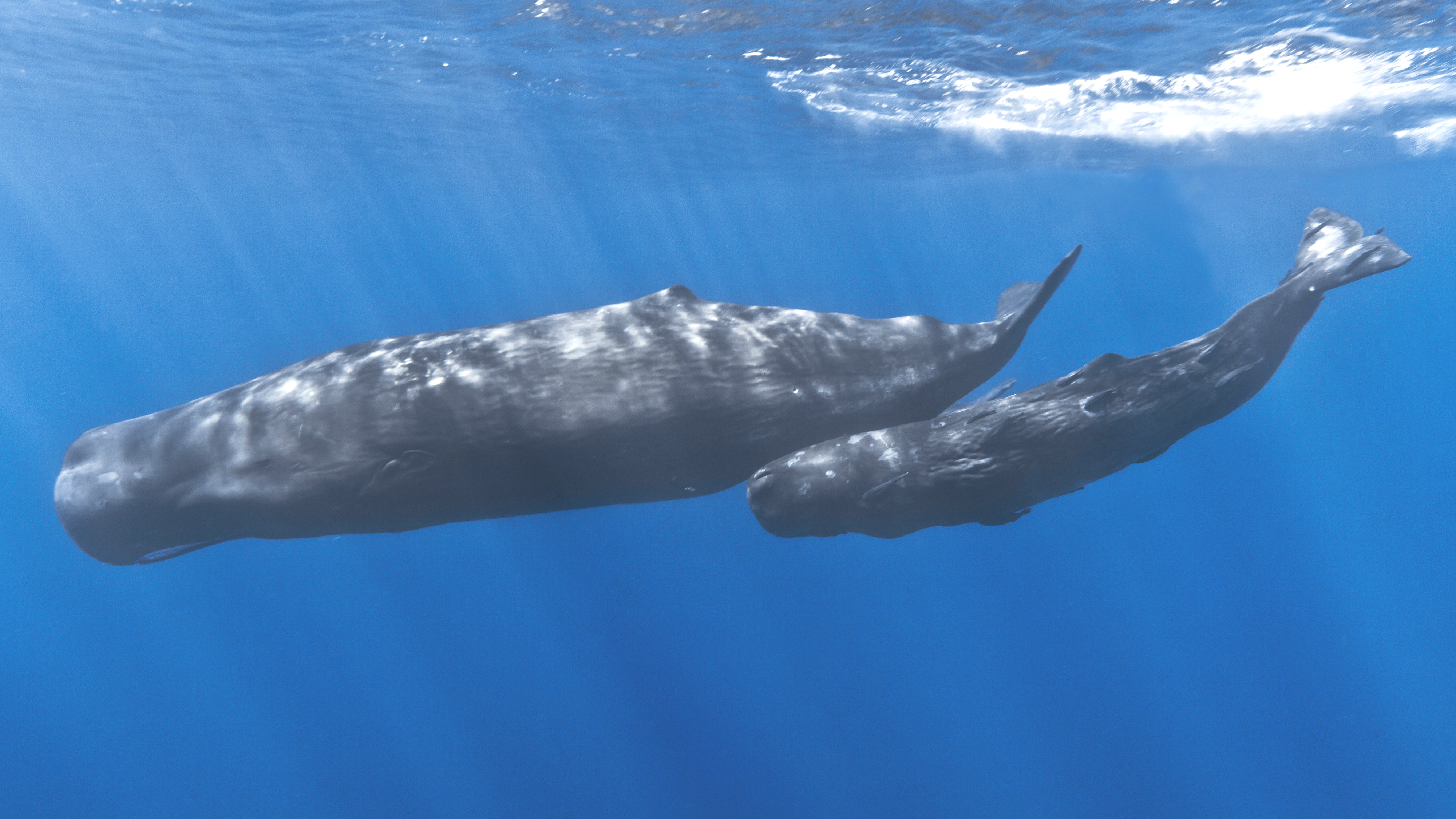 A mother sperm whale and her calf off the coast of Mauritius. The calf has remoras attached to its body.